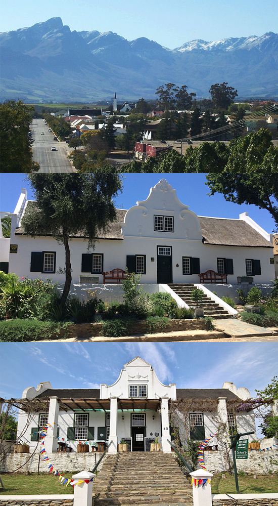 addds sdds